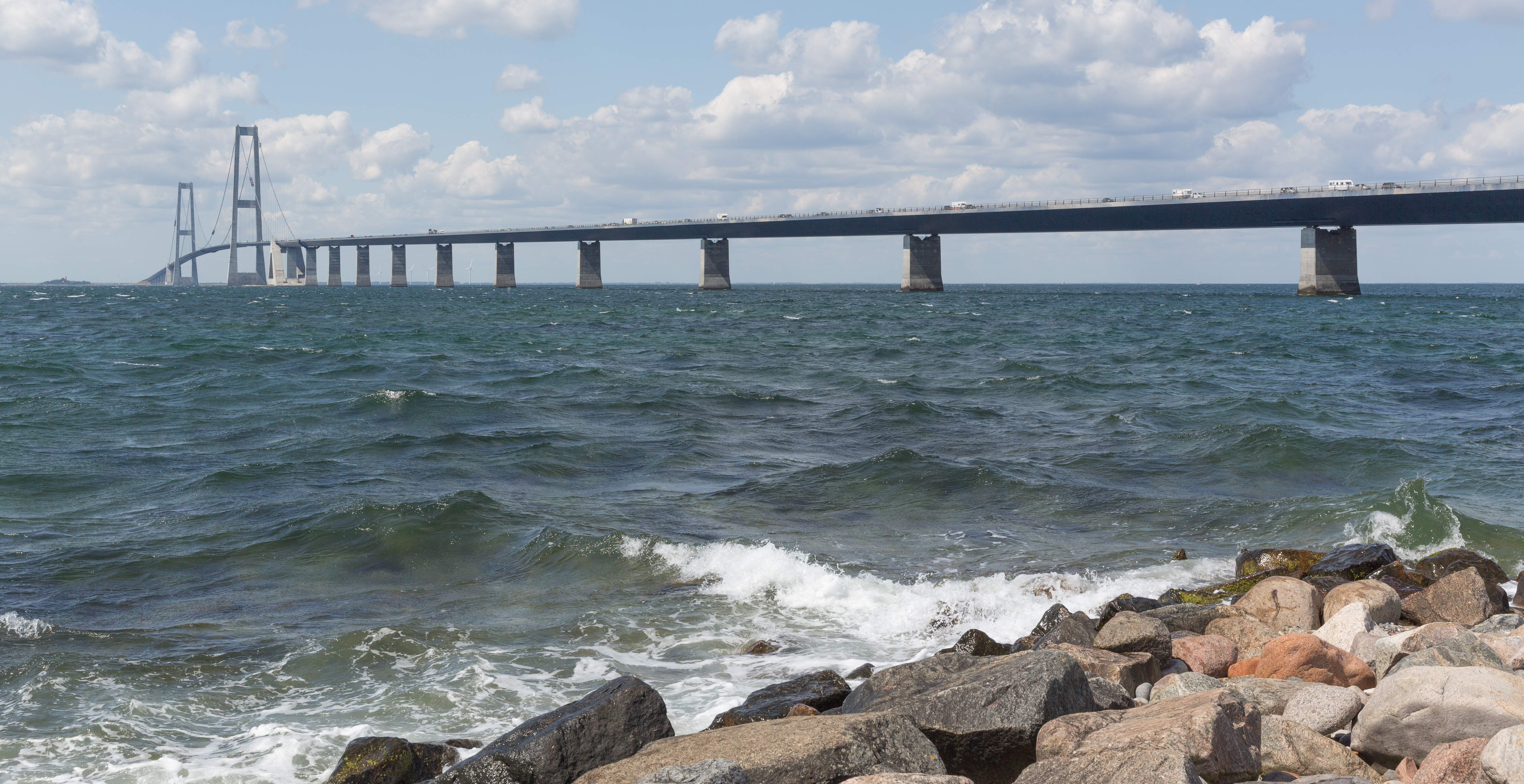 Great Belt Fixed Link, The East Bridge as seen from Zealand